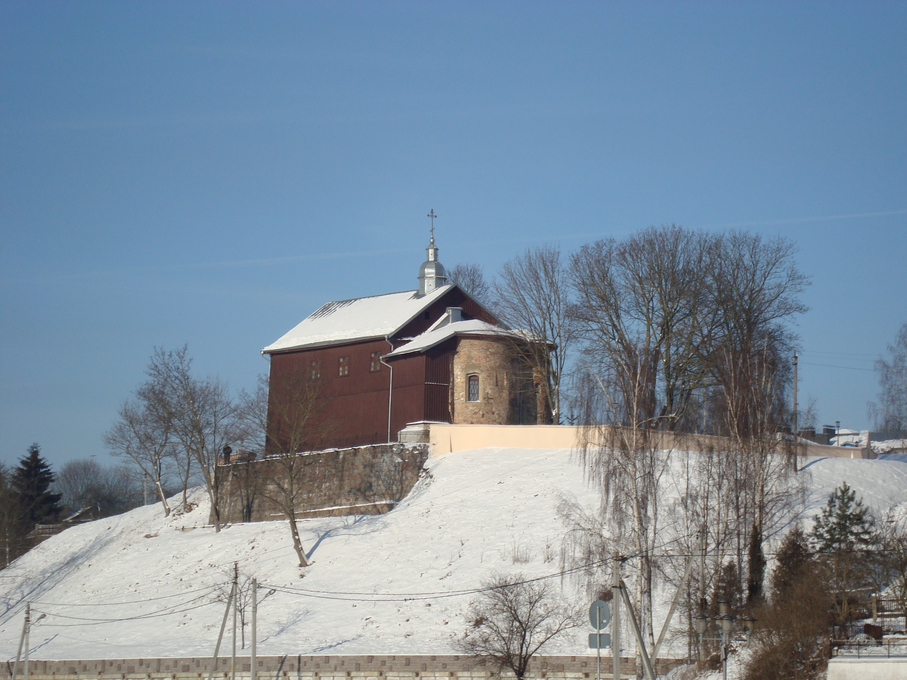 The old Church in Hrodna (Grodno)